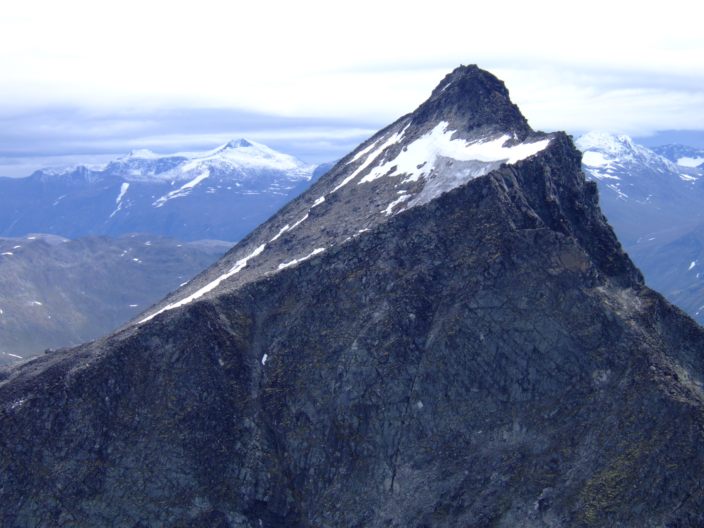 Mont Skardalseggi in Jotunheimen national park